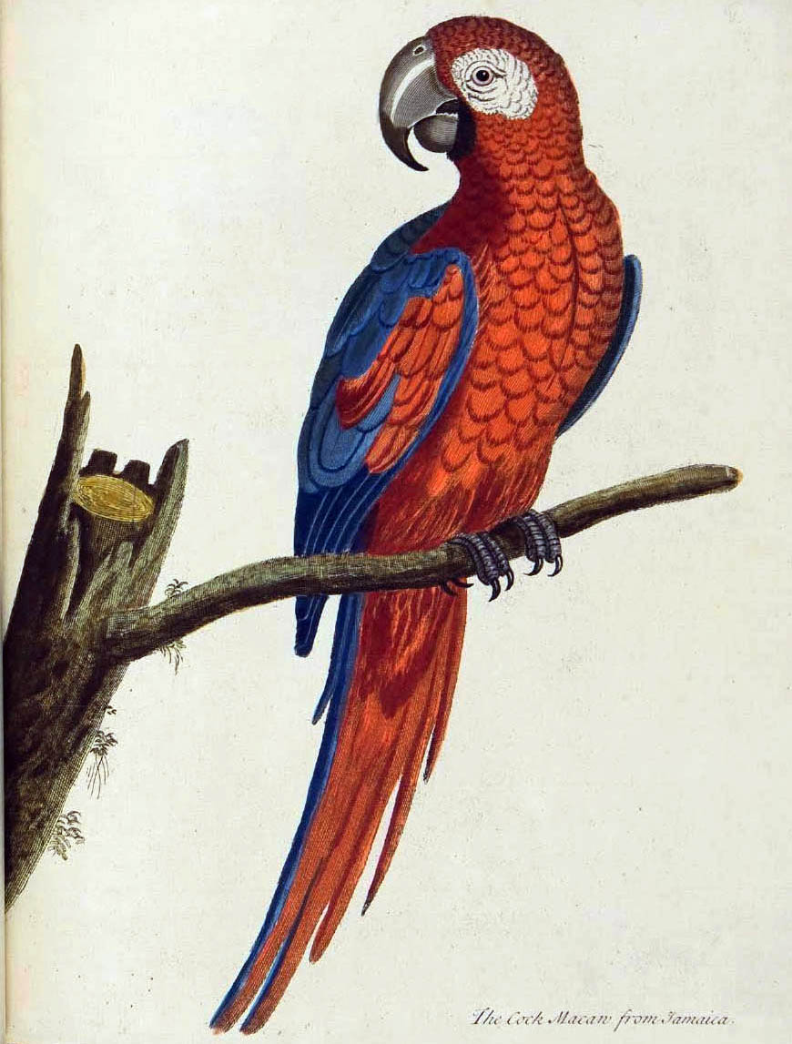 A natural history of birds: Illustrated with two hundred and five copper plates, curiously engraven from the life. And exactly colour'd by the author Eleazar Albin. To which are added, Notes and observations by W. Derham, D. D. Fellow of the Royal Society.